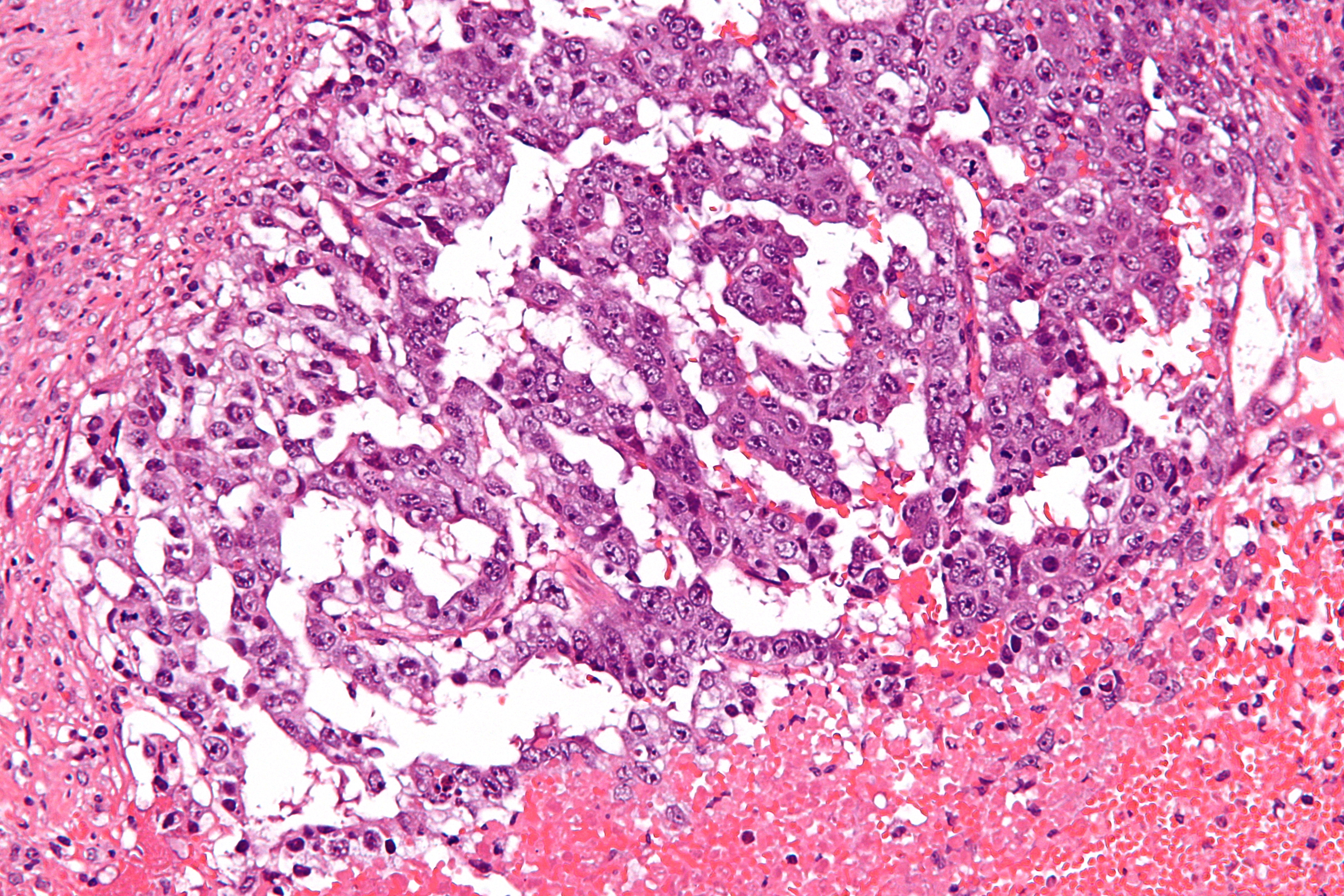 High magnification micrograph of a mixed germ cell tumour, also spelled mixed germ cell tumor. Testis (not apparent in images). H&E stain. The intermediate magnification image show both embryonal carcinoma (right of image) and yolk sac tumour (left of image). The higher magnification images show only yolk sac tumour. Common mixed germ cell tumour combinations are: Teratoma and embryonal carcinoma and yolk sac tumour. Seminoma and embryonal carcinoma. Teratoma and embryonal carcinoma. Yolk sac tumour has ten different morphologic patterns: Reticular. Endodermal sinus-like. Microcystic. Papillary. Solid. Glandular. Alveolar Polyvesicular vitelline. Enteric. Hepatoid. Related images Intermed. mag. High mag. Very high mag.